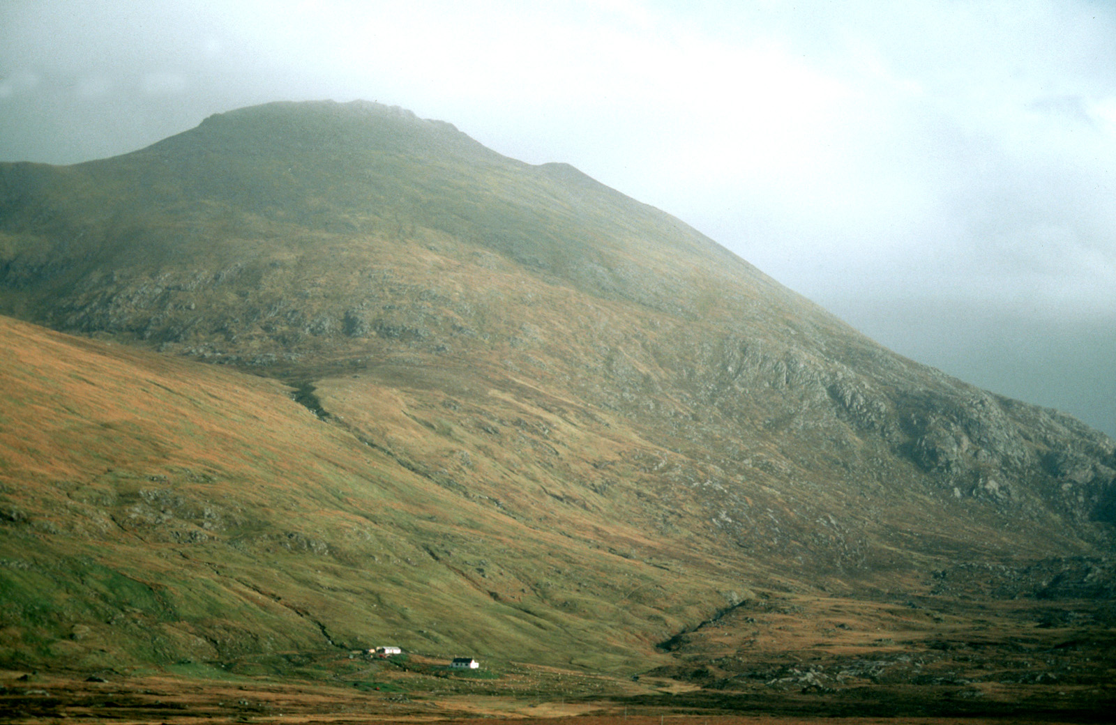 Northwest Highlands of Scotland, empty land in the northern part